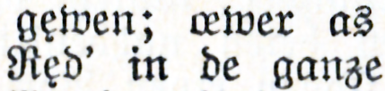 Detail of a scan of p. 81 from: Fritz Reuters sämtliche Werke in 15 Bänden, herausgegeben von Hermann Jahnke und Albert Schwarz, vol. 12, Berlin c. 1910 (a Low German text in the dialect of Mecklenburg). It shows the letter e᪷ (e with U+1AB7 combining open mark below used in a Blackletter (Fraktur) font.